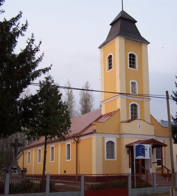 Roman catholic curch of Szakoly, Hungary